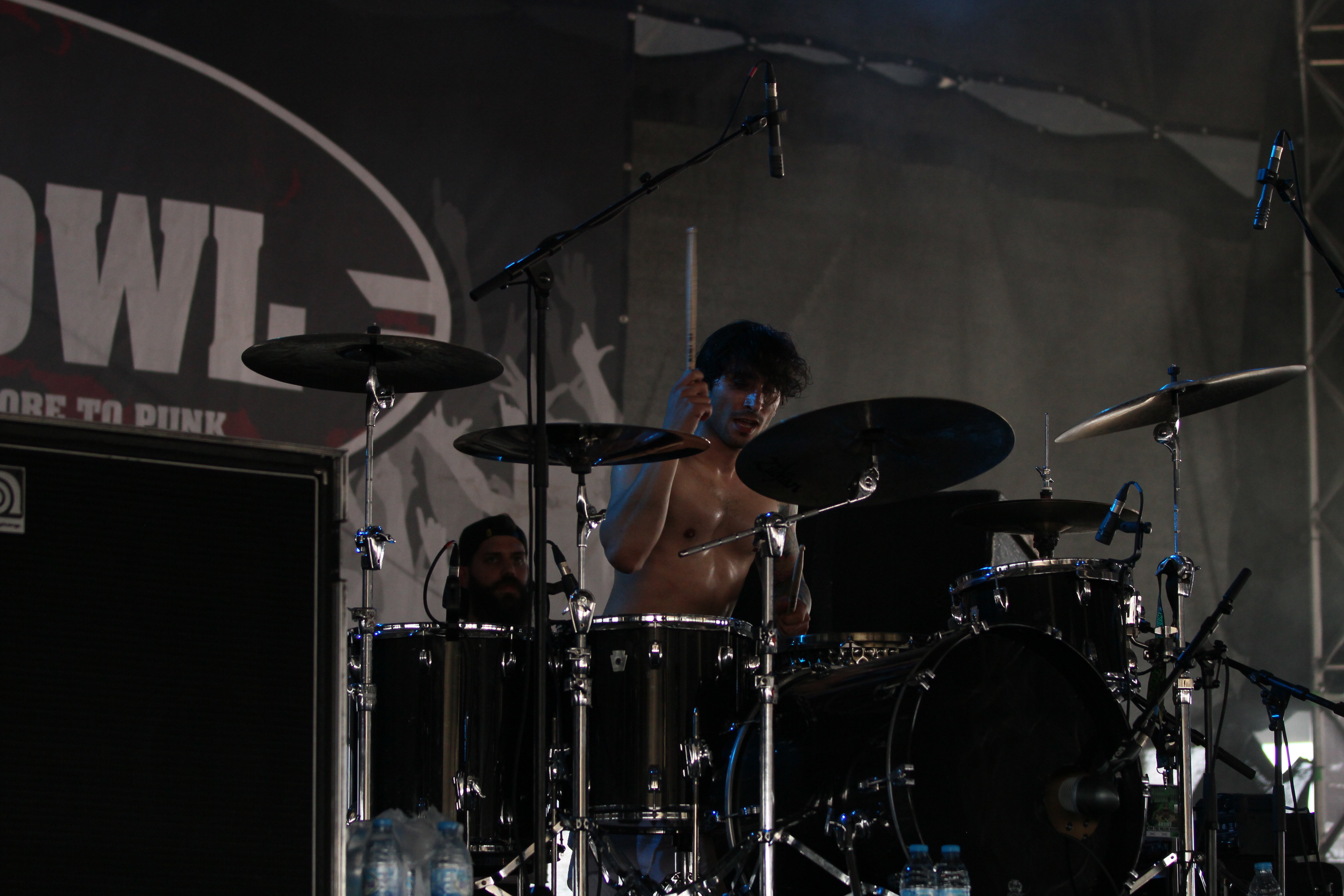 The American metalcore band For the Fallen Dreams at the With Full Force festival 2014 in Roitzschjora/Germany